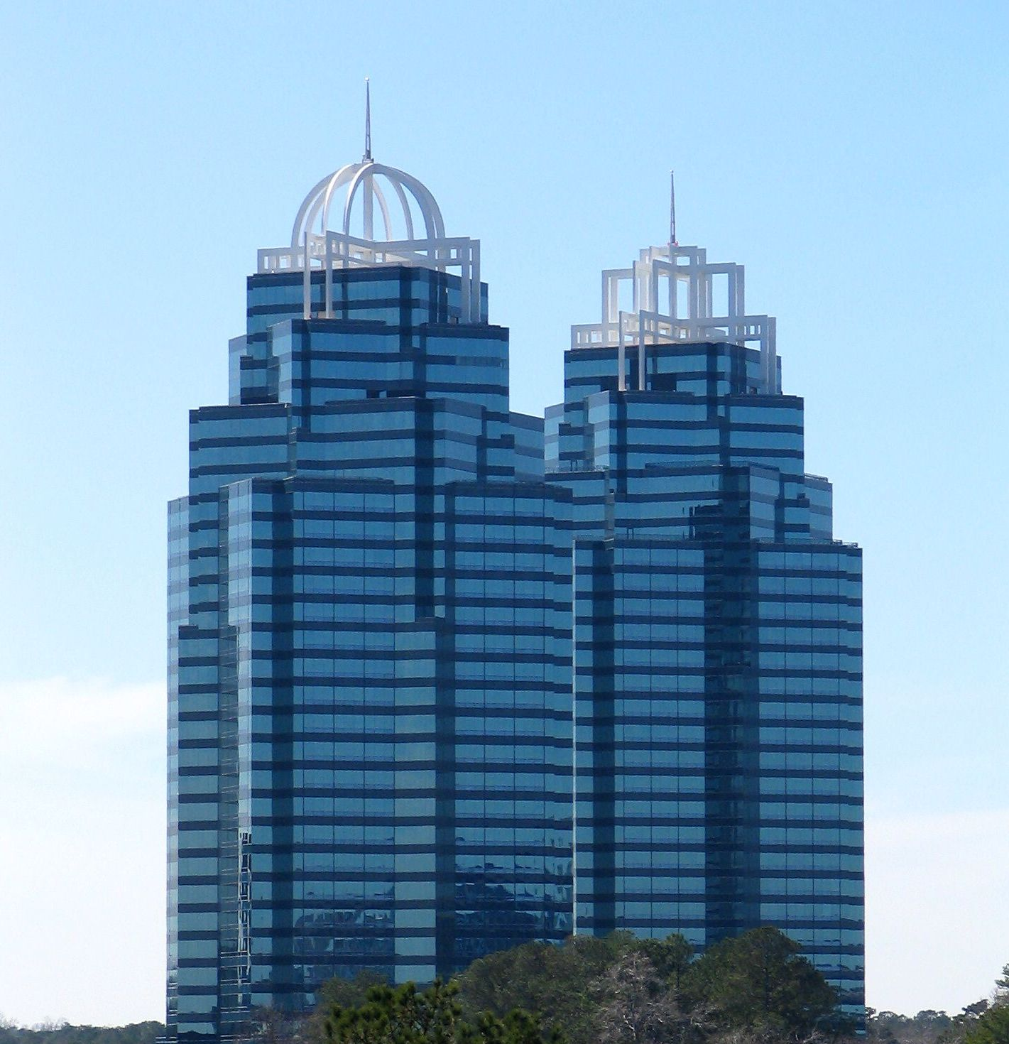 Concourse at Landmark Center